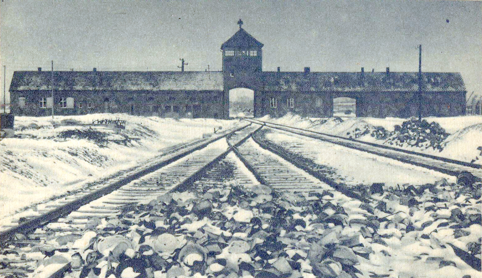 Gatehouse Auschwitz II (Birkenau)